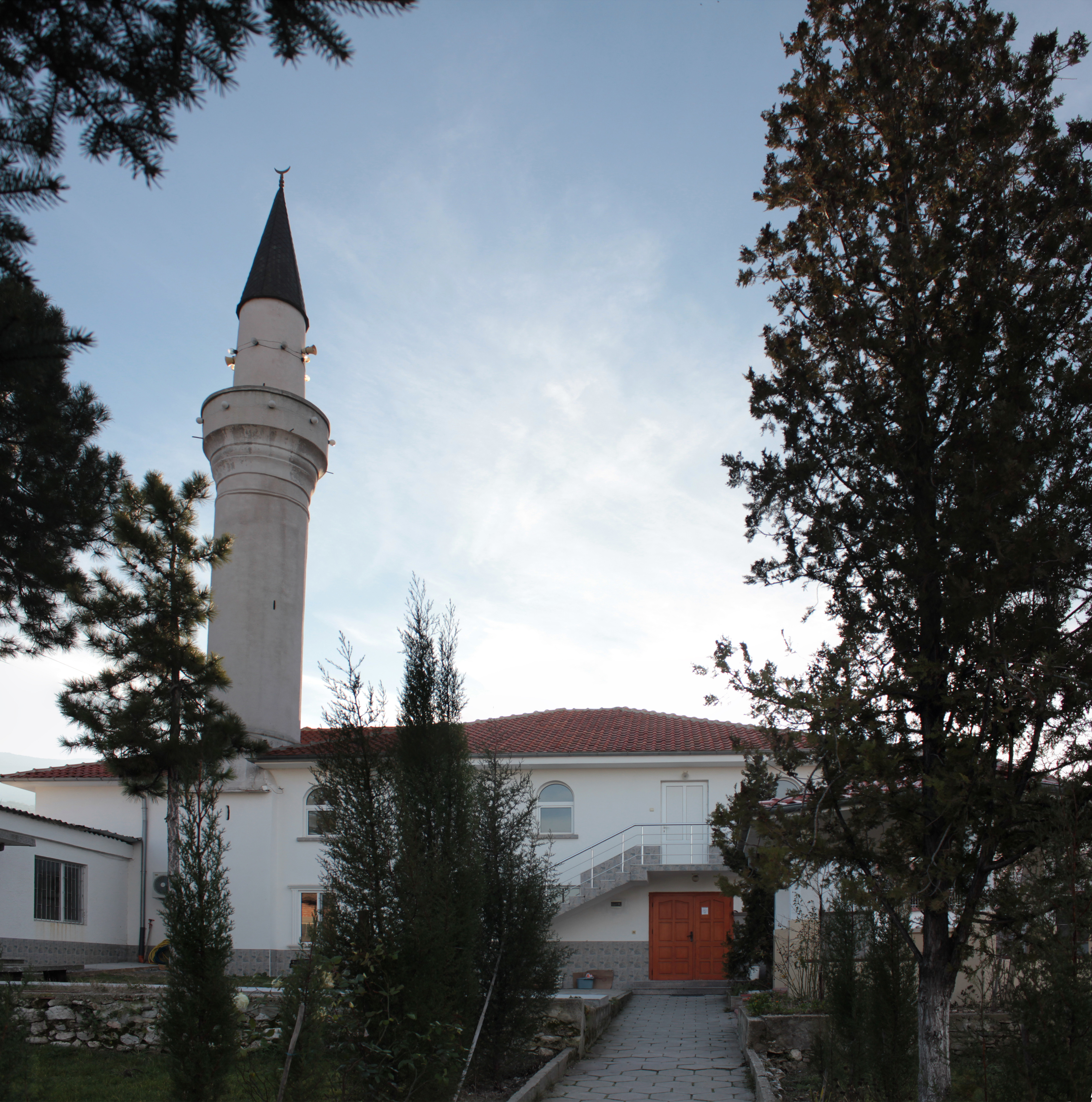 The Mosque of Kuklen, Bulgaria